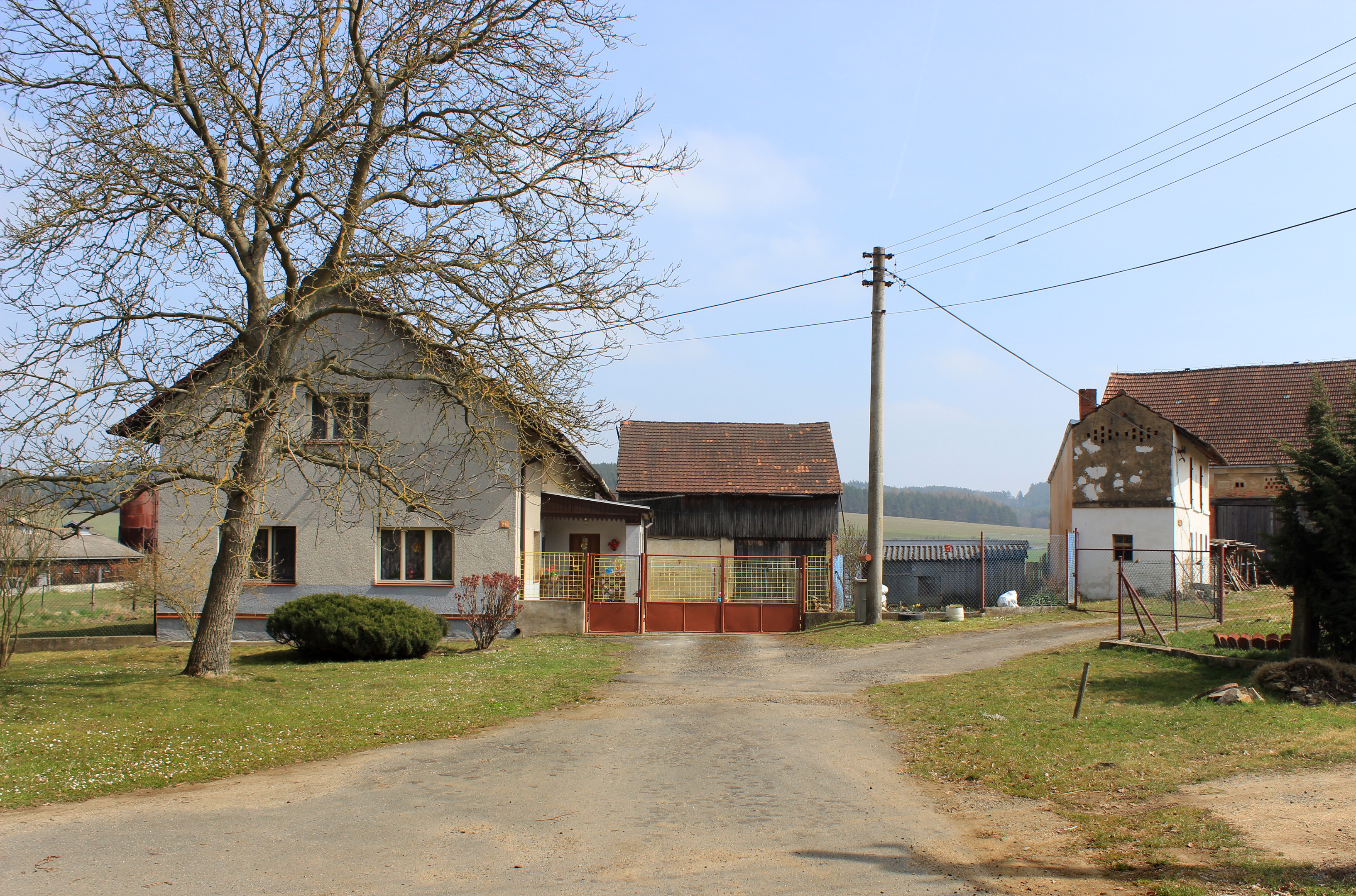 Common in Vidice village, Czech Republic.